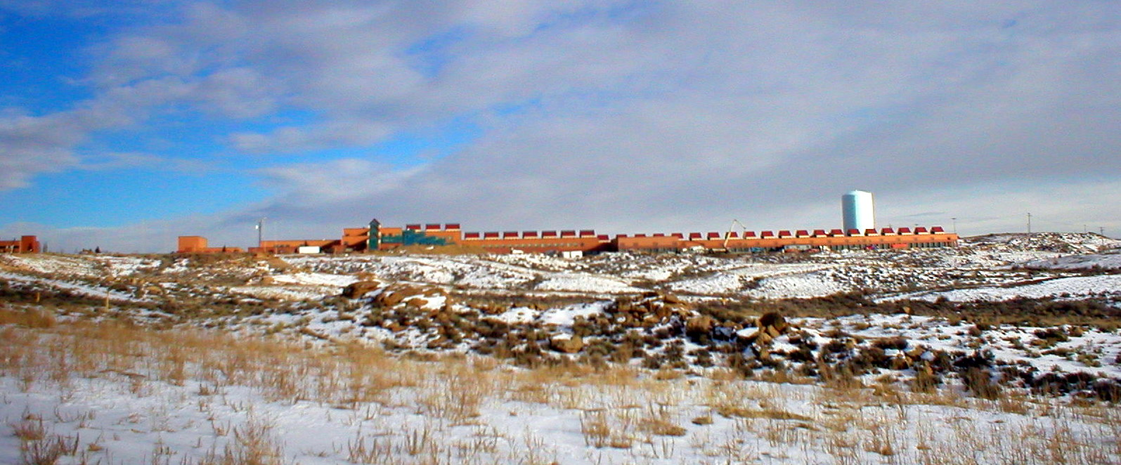 Western Wyoming Community College, from the west.